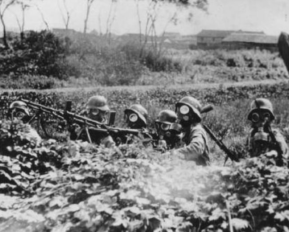 A Chinese squad deployed outside Shanghai. Gas masks were standard issue, at least among the best Chinese units, and there were several reports of the use of gas on either side during the campaign, although it has proven a challenge to separate reality from propaganda.